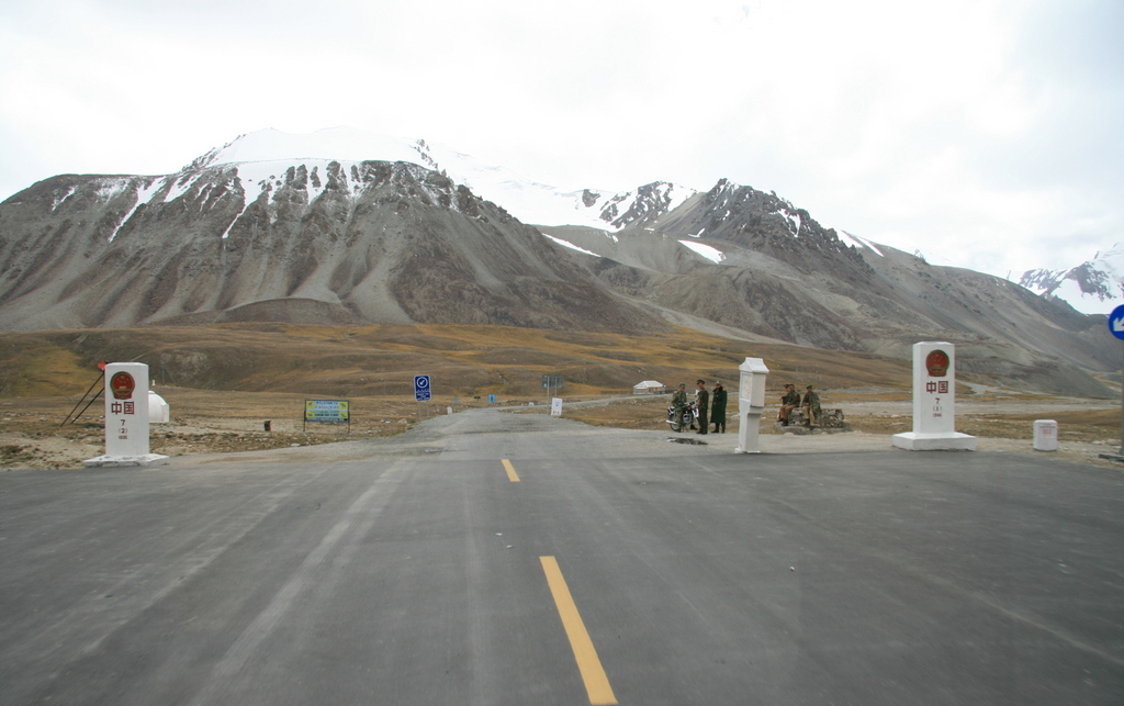 Karakoram Highway over Khunjerab Pass between China and Pakistan is the highest elevation International Border Crossing in the World.